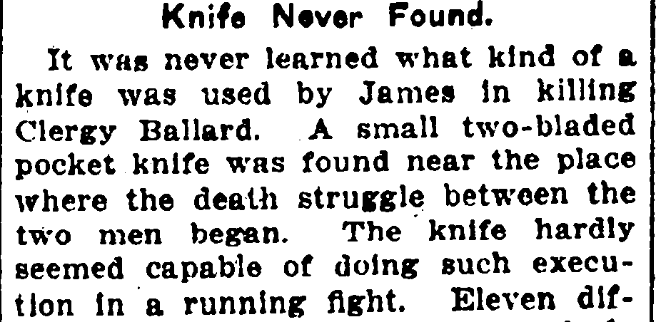 Daily Illinois State Register